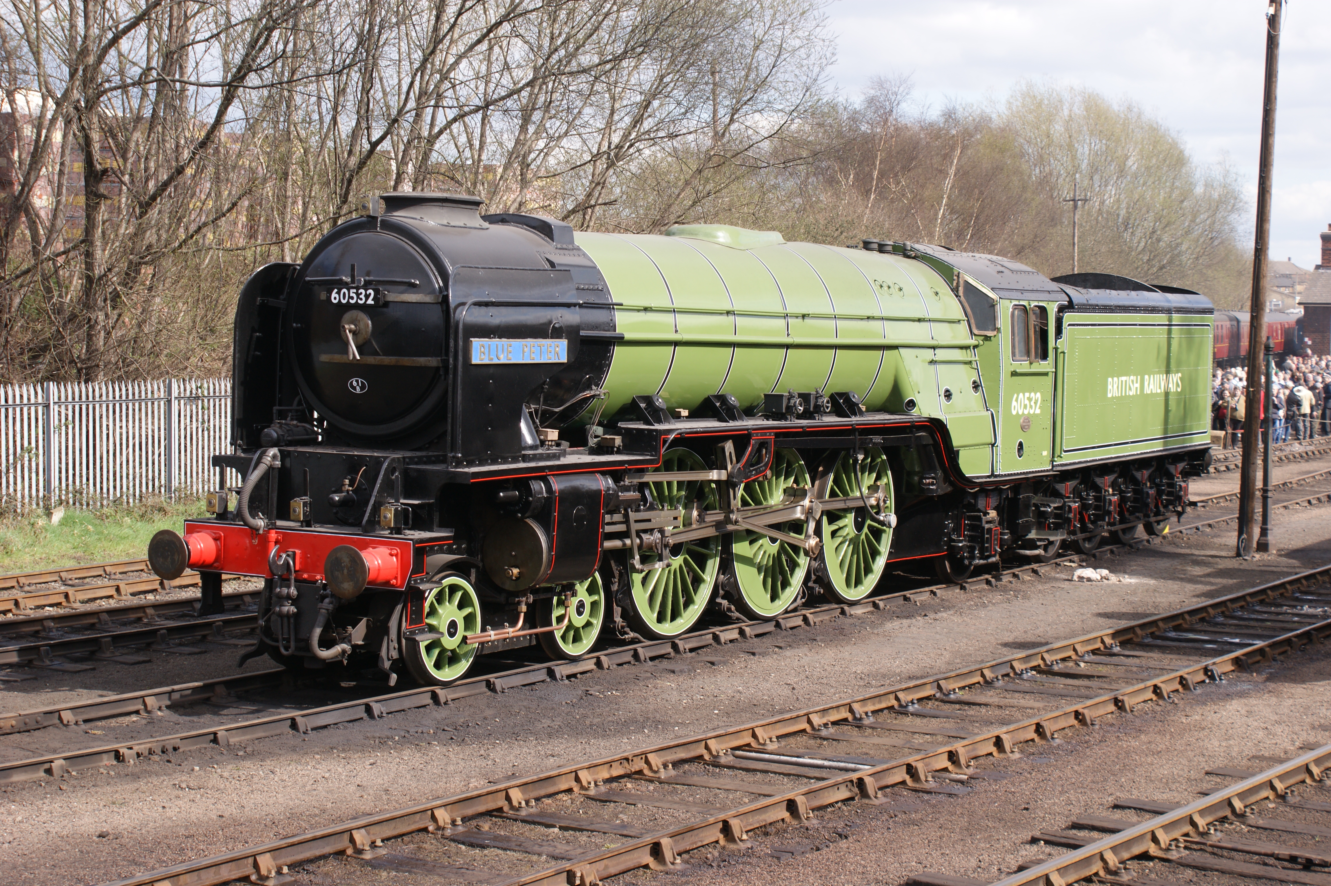 LNER Peppercorn "A2" 4-6-2 No.60532 Blue Peter, but not blue! It carries the Interim BR livery - LNER Apple Green and "British Railways" in LNER Gill Sans letters which, in any case, was adopted by BR in 1949 when the new standard liveries were adopted until the associated totem - which had not been agreed - was ready. The A2 would have carried a rimless stovepipe chimney with this livery and not the rimmed chimney adopted in the early 50's but which did not finally replace all stovepipe chimneys until the end of the '50's. 4/09